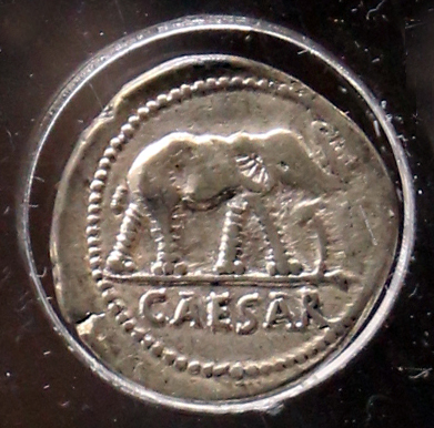 I Pozzi delle Meraviglie (2017)